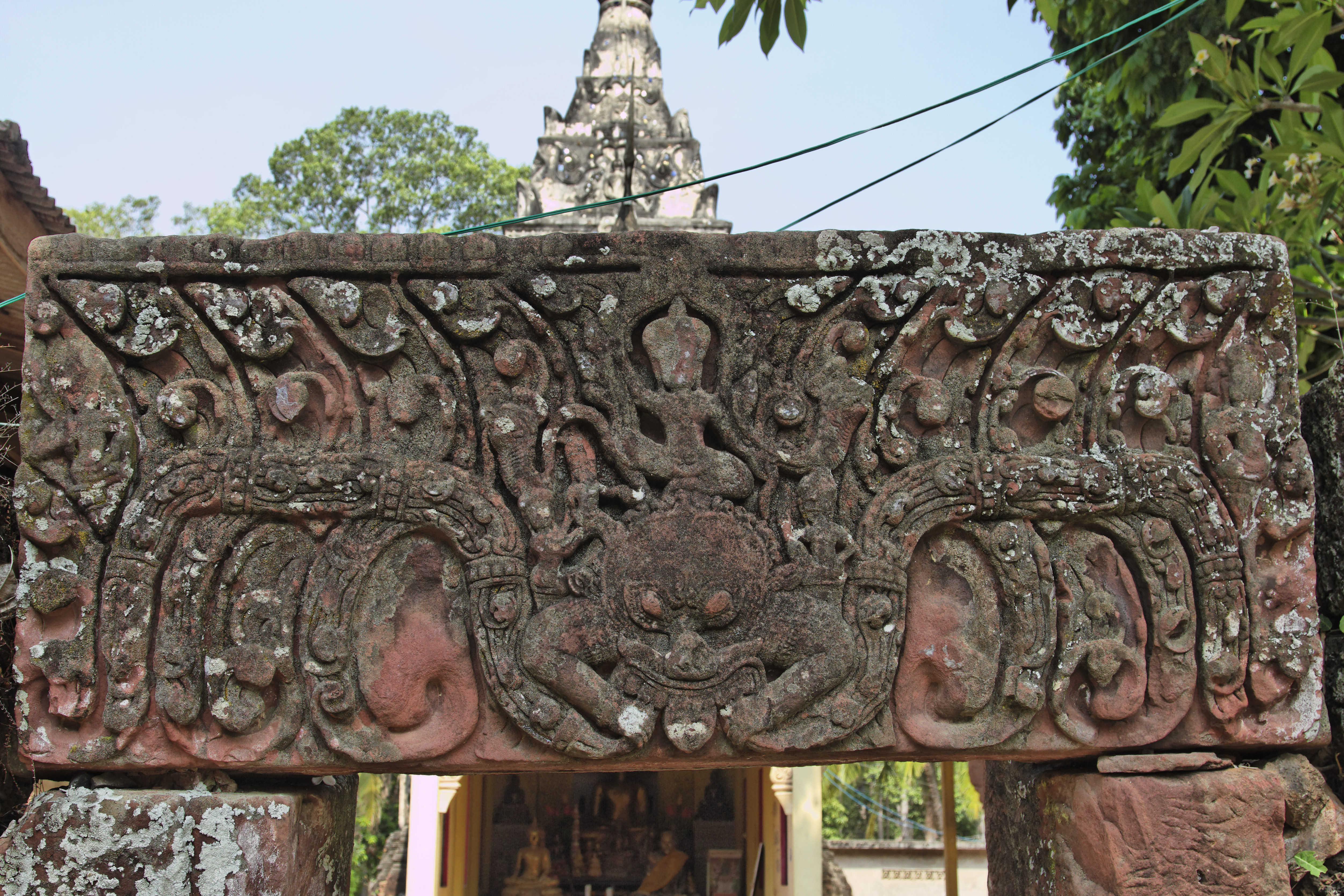 Ku Phra Kona is a khmer temple located in the province of Roi Et